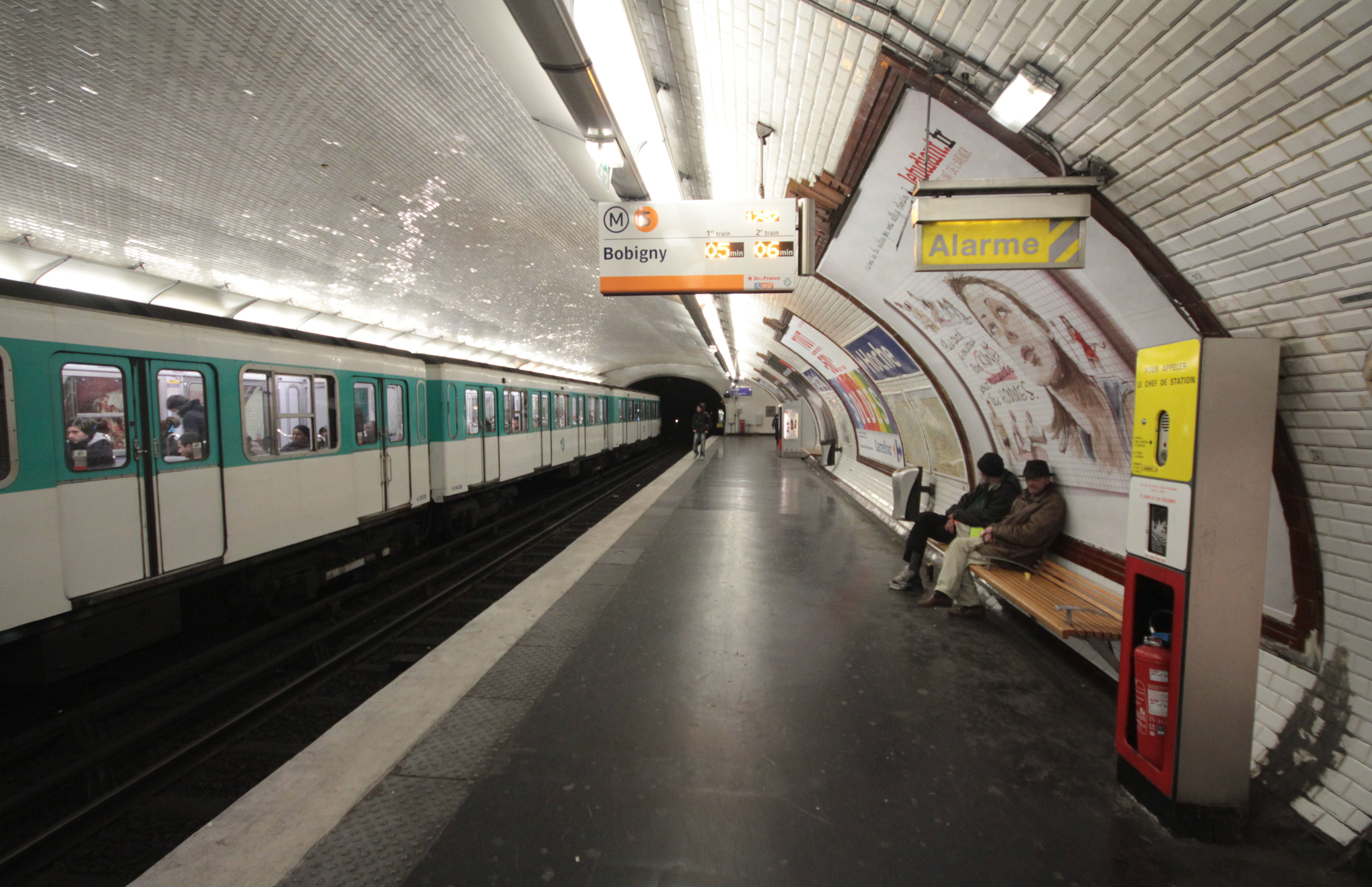 Metro station Hoche on Parisian metro line 5